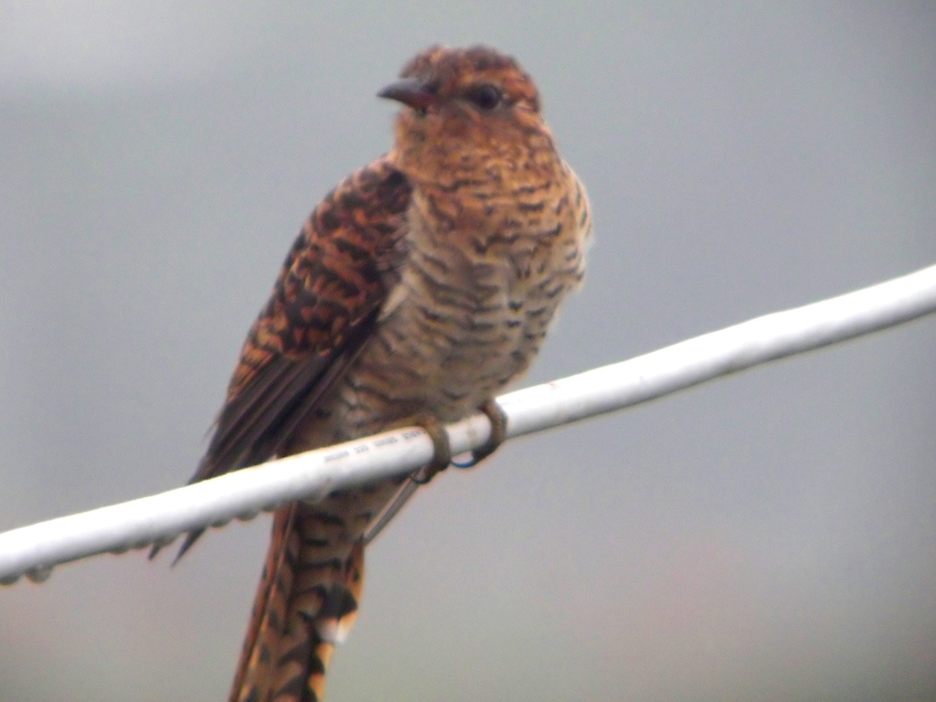 Juvenile Plaintive Cuckoo - Cacomantis merulinus (Hong Kong)